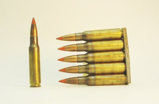 7.62 NATO tracer cartridges in stripper clip